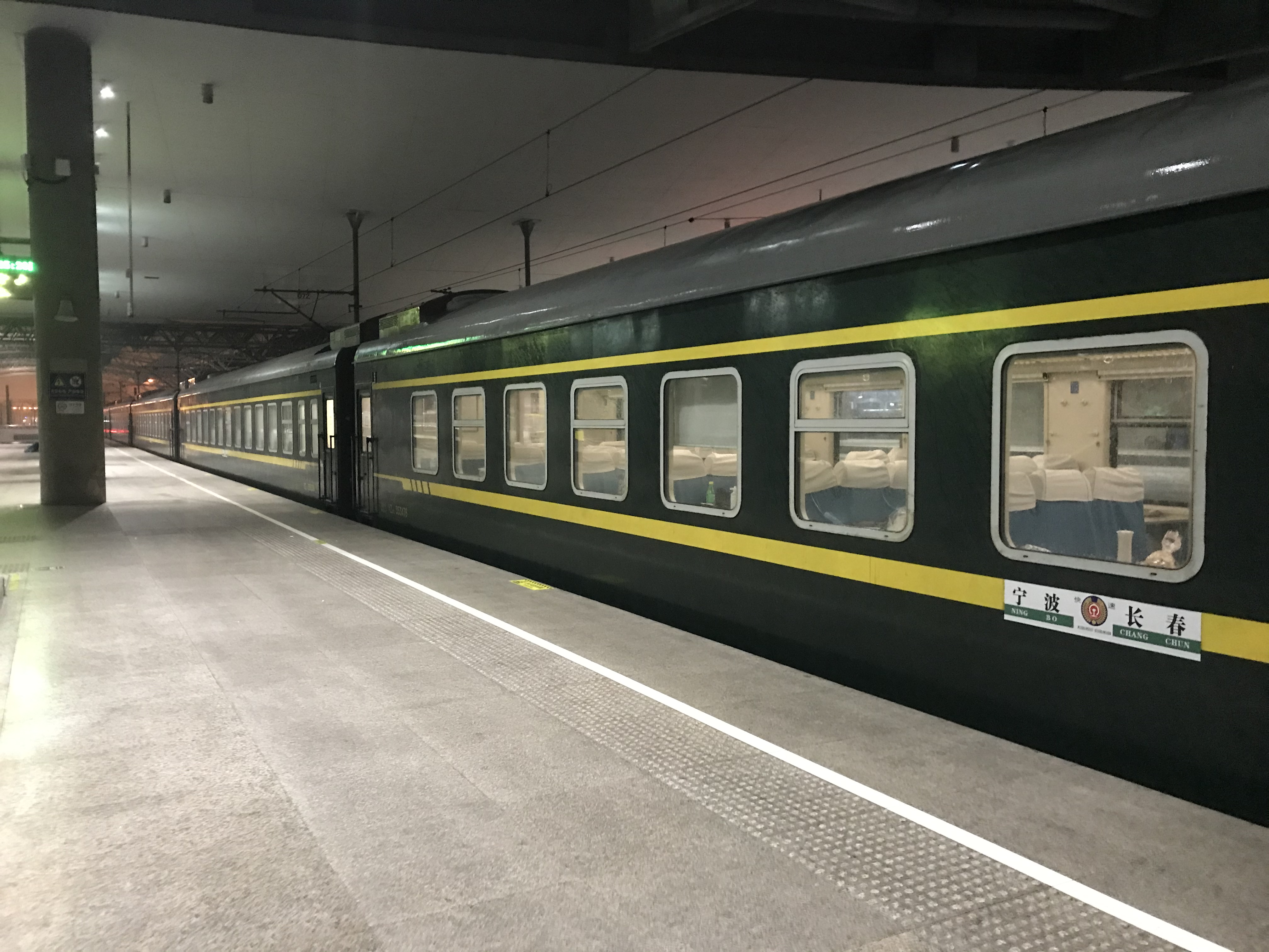 After the rename of train number...